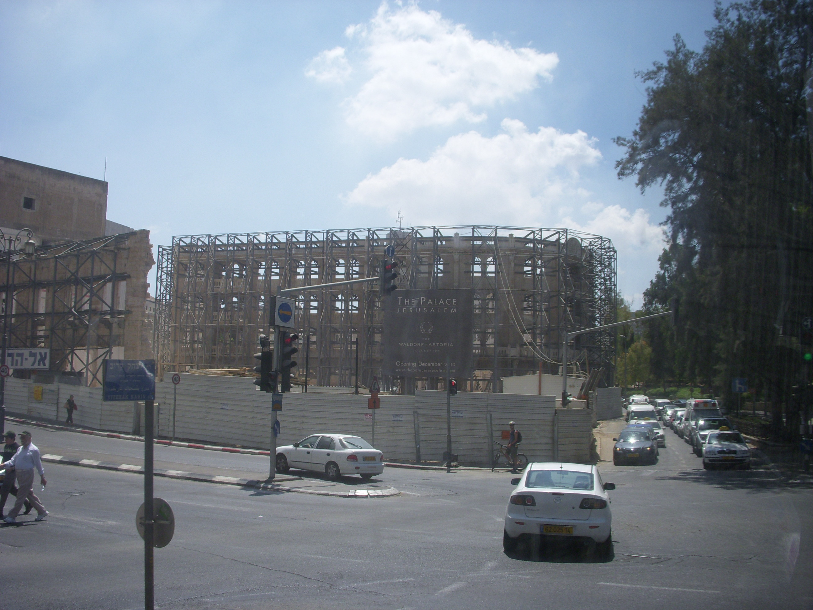 The Palace Jerusalem (Waldorf=Astoria Collection) being built in Jerusalem, Israel.